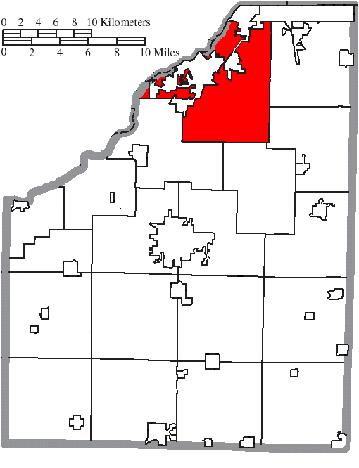 Map of the municipal and township boundaries of Wood County, Ohio, United States, as of the 2000 census, with the location of Perrysburg Township highlighted. Township borders are shown only in unincorporated areas in order to differentiate incorporated and unincorporated areas more clearly.